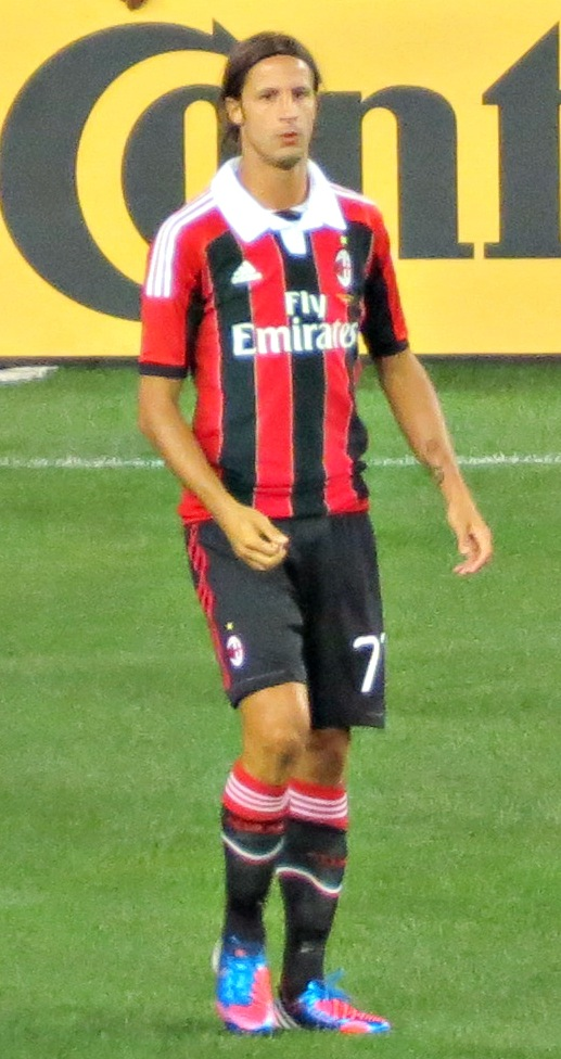 Luca Antonini of A.C. Milan in action for A.C. Milan against Real Madrid in the 2012 World Football Challenge.